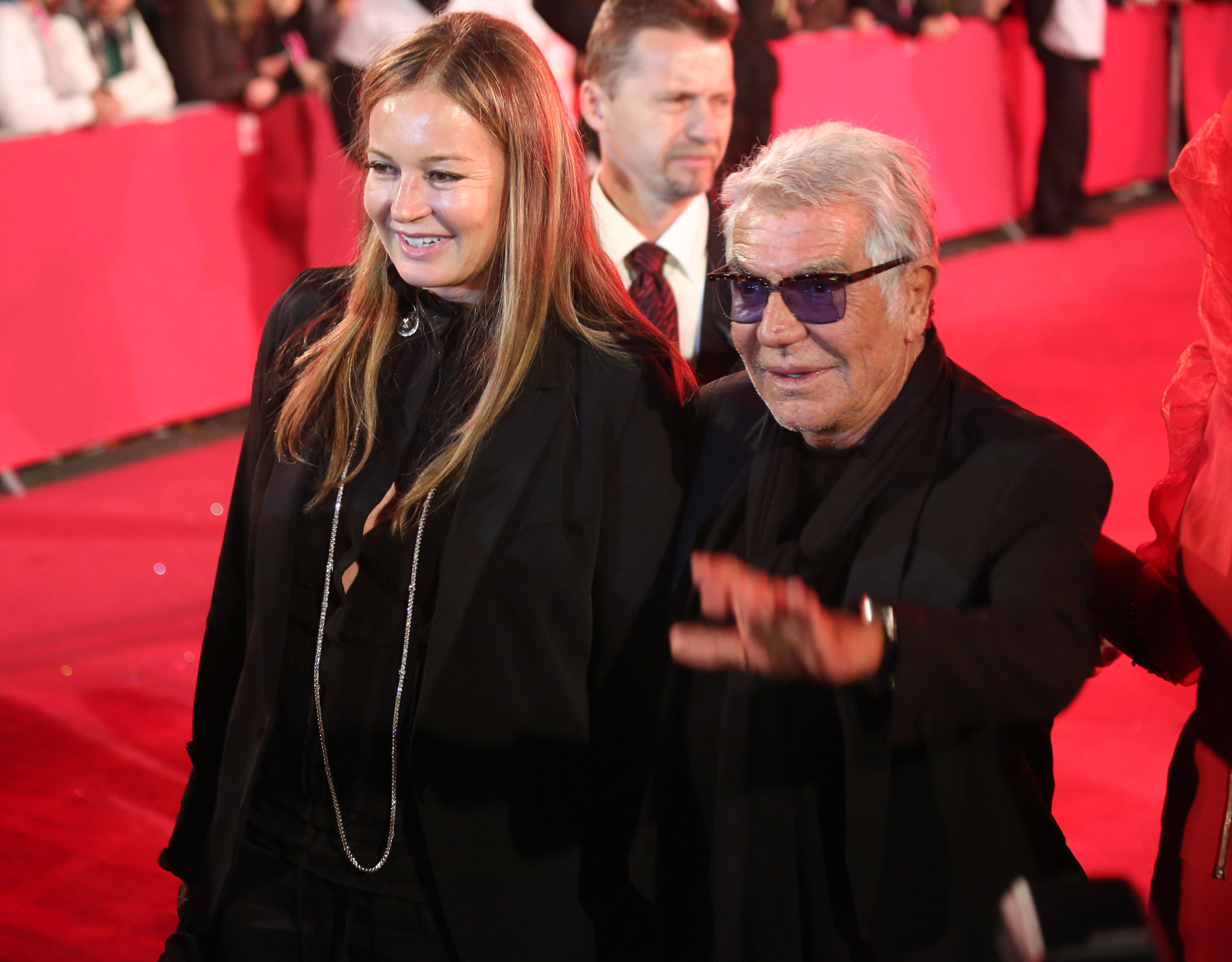 Eva and Roberto Cavalli on the 'magenta carpet' at Life Ball 2013 at the square in front of the city hall of Vienna, Vienna, Austria.